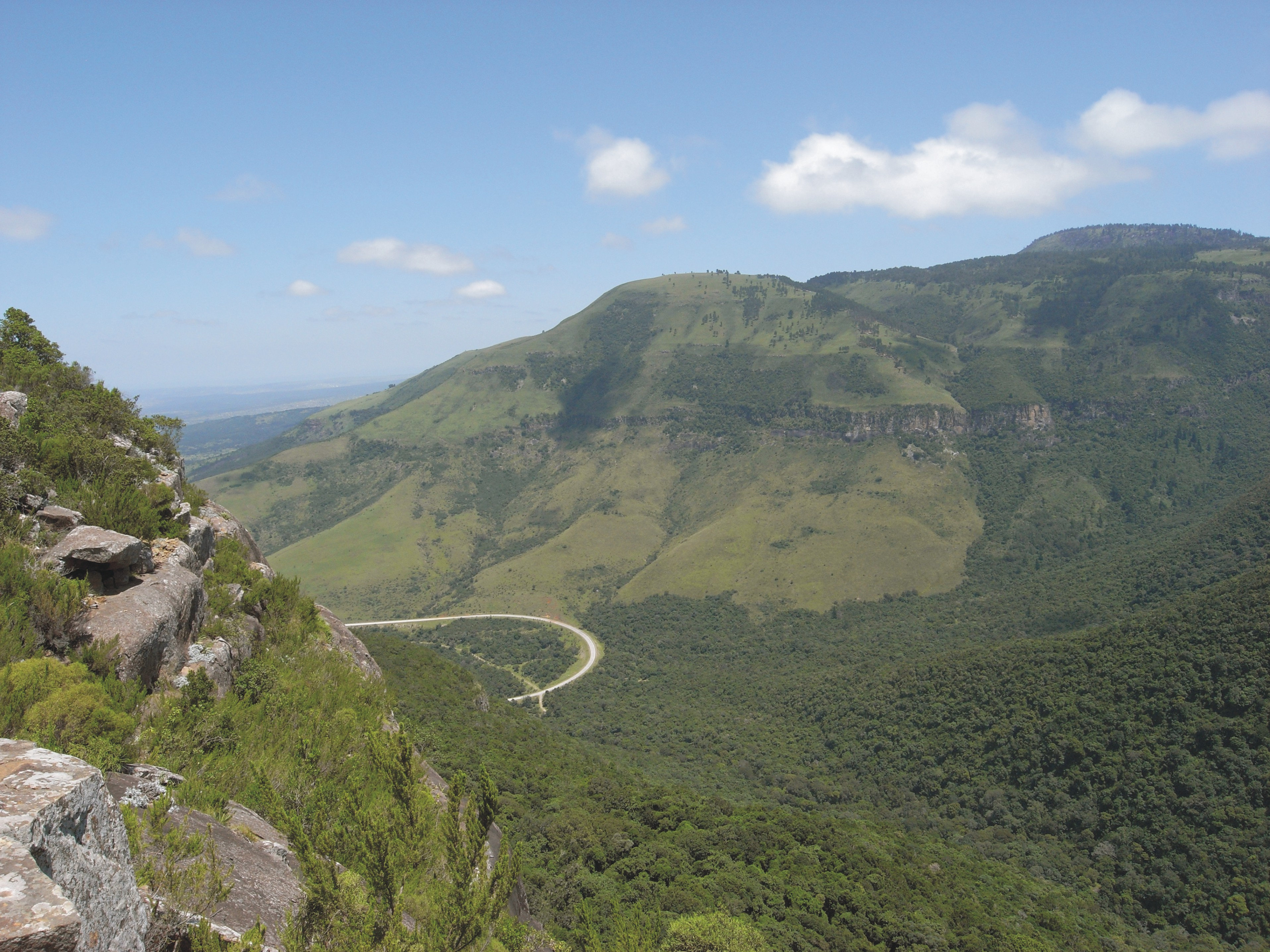 Amathole Mountains, view at the idigenious forest of Auckland Nature Reserve and the Hogsback pass street (Eastern Cape, South Africa)